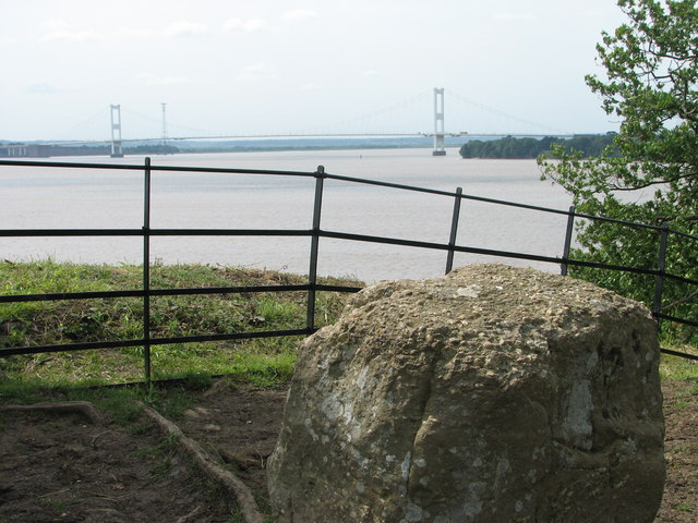 Offa's Dyke Path Southern Start and Finish Stone